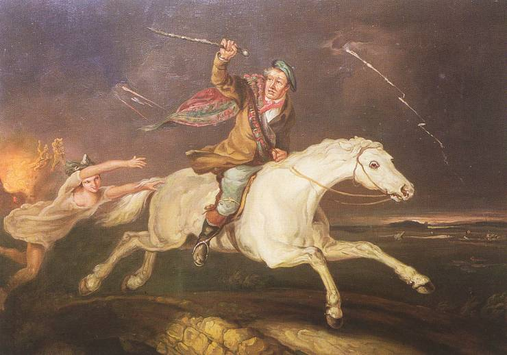 Tam O’Shanter painting Acrylic painting depicting the Tam O’Shanter story, of unknown date. Tam is shown escaping on his horse, whilst being pursued by Nannie who grabs the horse’s tail. The churchyard is visible in the background, engulfed in flames and surrounded by witches and warlocks. Citation from Victoria Art Gallery Bath: The painting depicts the last dramatic moment in Robert Burns' poem where Tam's faithful horse, Maggie, saves his life from the witches 'but left behind her ain grey tail'. Tam, rolling home drunk one night past the ghostly ruin of Alloway Church, chances upon a witch's coven dancing with the devil. He shouts out something to the witches and they chase him to the River Doon. But, like in stories of vampires, these witches cannot cross water, so when his horse clears the river, Tam is safe. John Joseph Barker (1824–1904) was the third son of Thomas Barker. He lived and worked in Bath all his life. Although his first works were landscapes, he soon started producing more commercial pieces to make a living. Tam O'Shanter is typical of these dramatic, literary subjects that were popular among the middle classes who had neither the money nor the room for large portraits or mythological scenes, but who wanted an original work of art for their house. NB Artfact credits this painting to Abraham Cooper